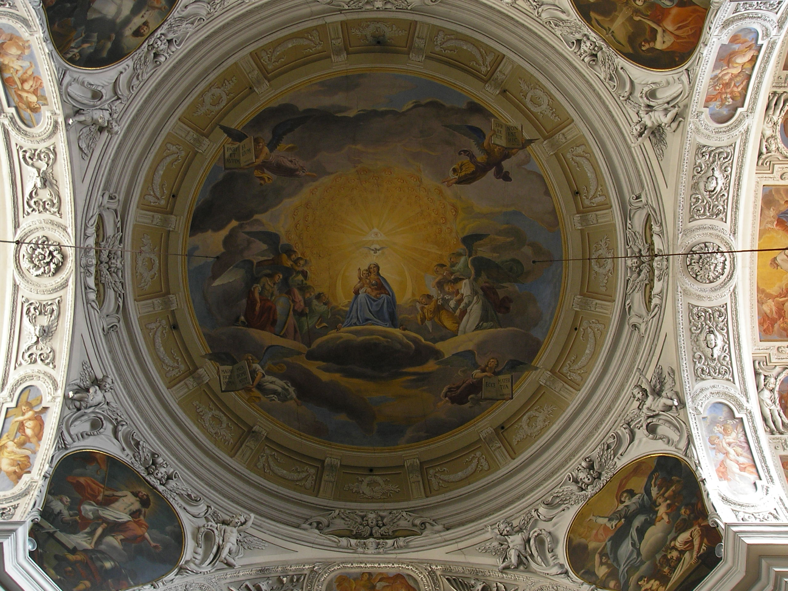 Dominikanerkirche in Vienna. In Latin Basilika minor ad Sankta Mariam Rotondam. Constructed 1631-34 by Jakob Spatz, Cipriano Biasino and Antonio Canevale.